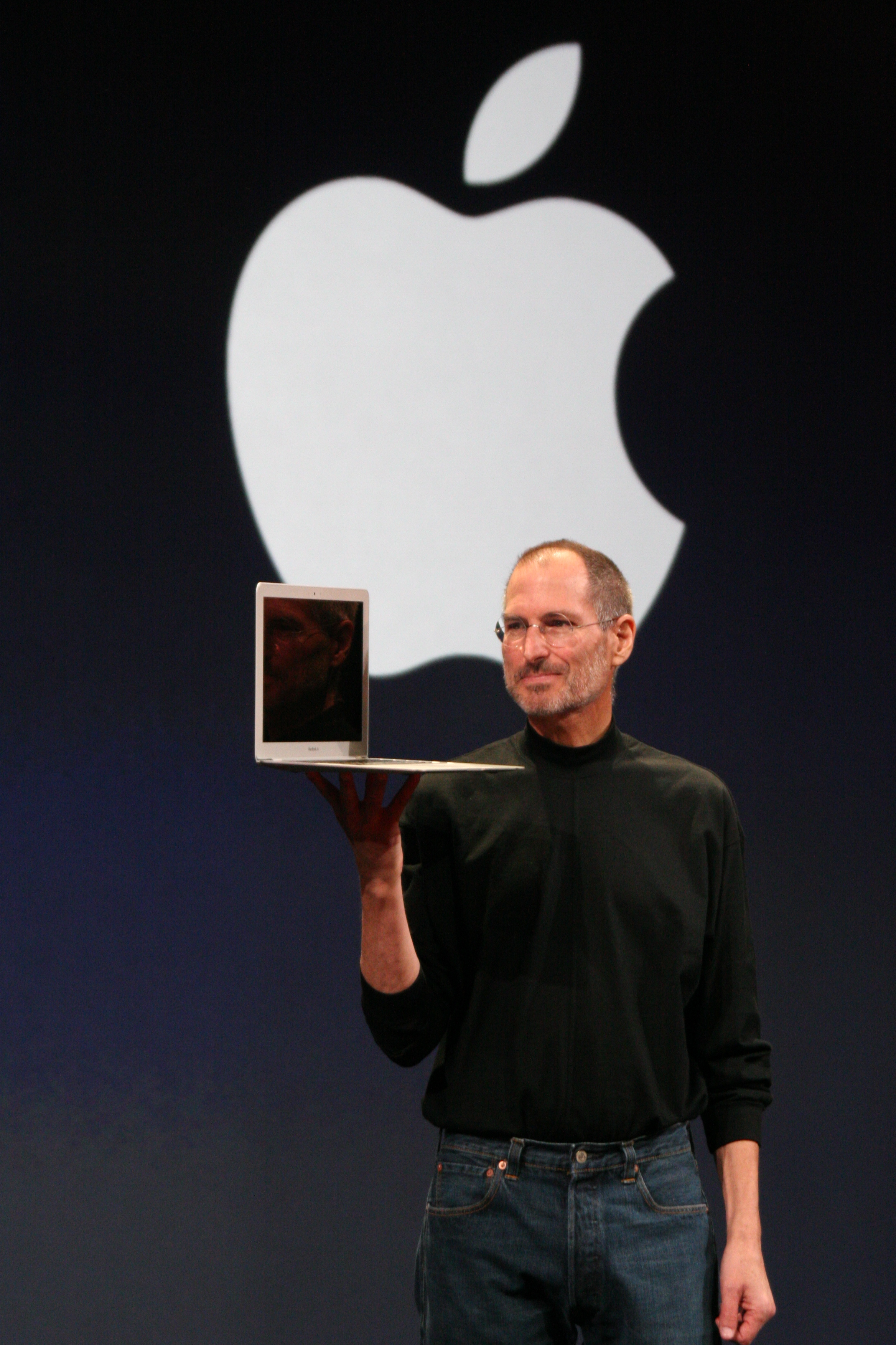 Steve Jobs holding a MacBook Air (at MacWorld Conference & Expo 2008 - Moscone Center - San Francisco, CA)